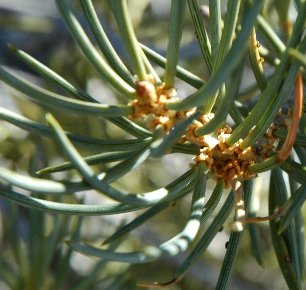 Pinus monophylla (Pinyon pine) — foliage, close up of fascicles, each with a single needle. In the the Inyo National Forest, near the entrance to the Ancient Bristlecone Pine Forest, in the White Mountains, eastern California.